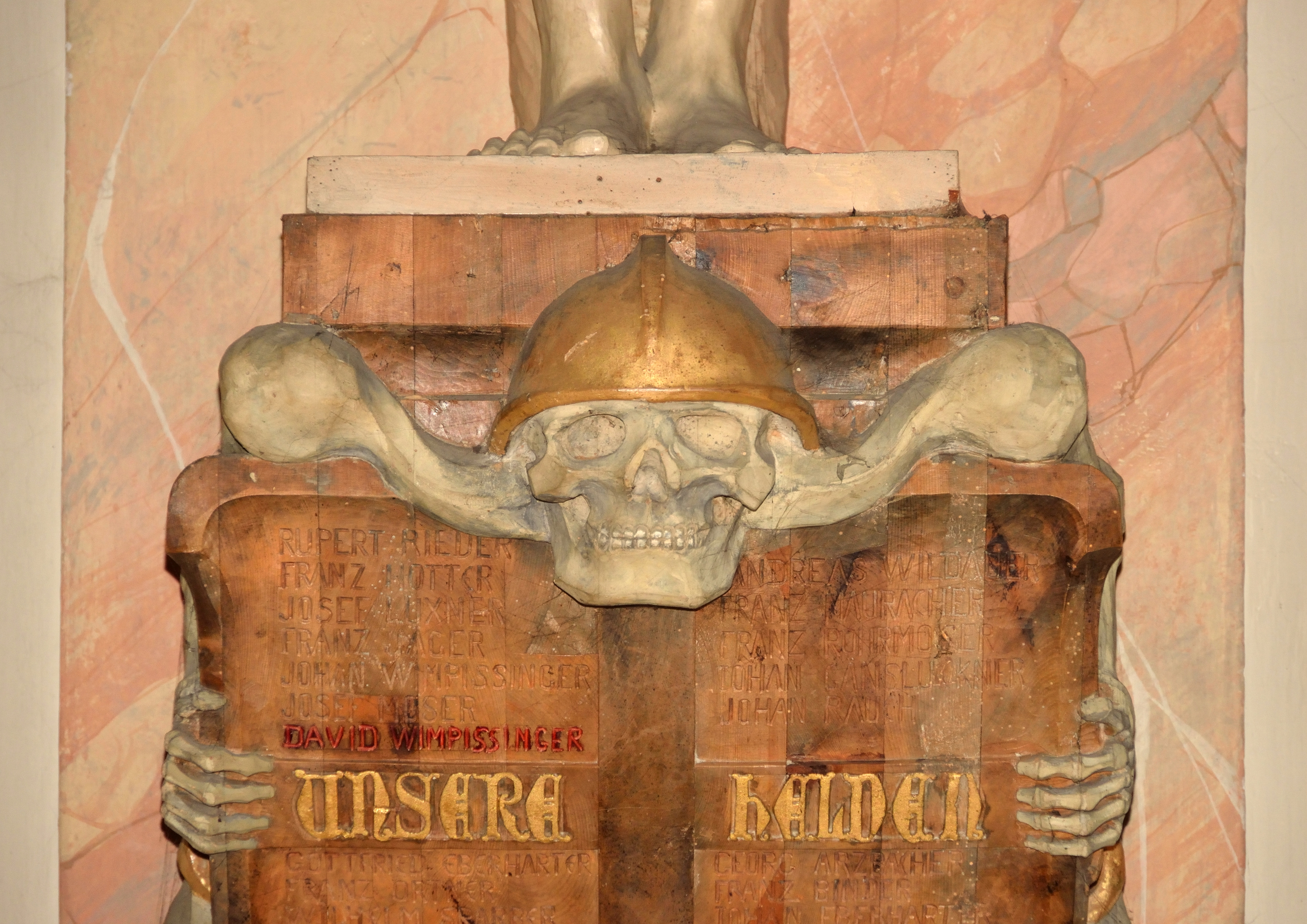 The parish church Saint John the Baptist (hl. Johannes der Täufer) in Ried im Zillertal, Tyrol, was built in 1773-79 and is protected as a cultural heritage monument. The war memorial "Christus an der Martersäule" was created by Hans Mauracher in 1920.